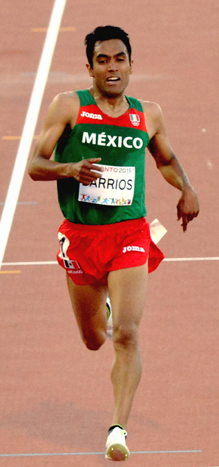 Spc. Aron Rono of the U.S. Army World Class Athlete Program finishes second in the men's 10,000-meter run at the 2015 Pan American Games in Toronto on July 22 with a time of 28 minutes, 50.83 seconds. Canada's Ahmed Mohammed won the race in 28:49.96. Juan Luis Barrios (28:51.57) of Mexico took the bronze medal, followed by fourth-place finisher WCAP Spc. Shad Kipchirchir (29:01.55). U.S. Army photo by Tim Hipps, IMCOM Public Affairs